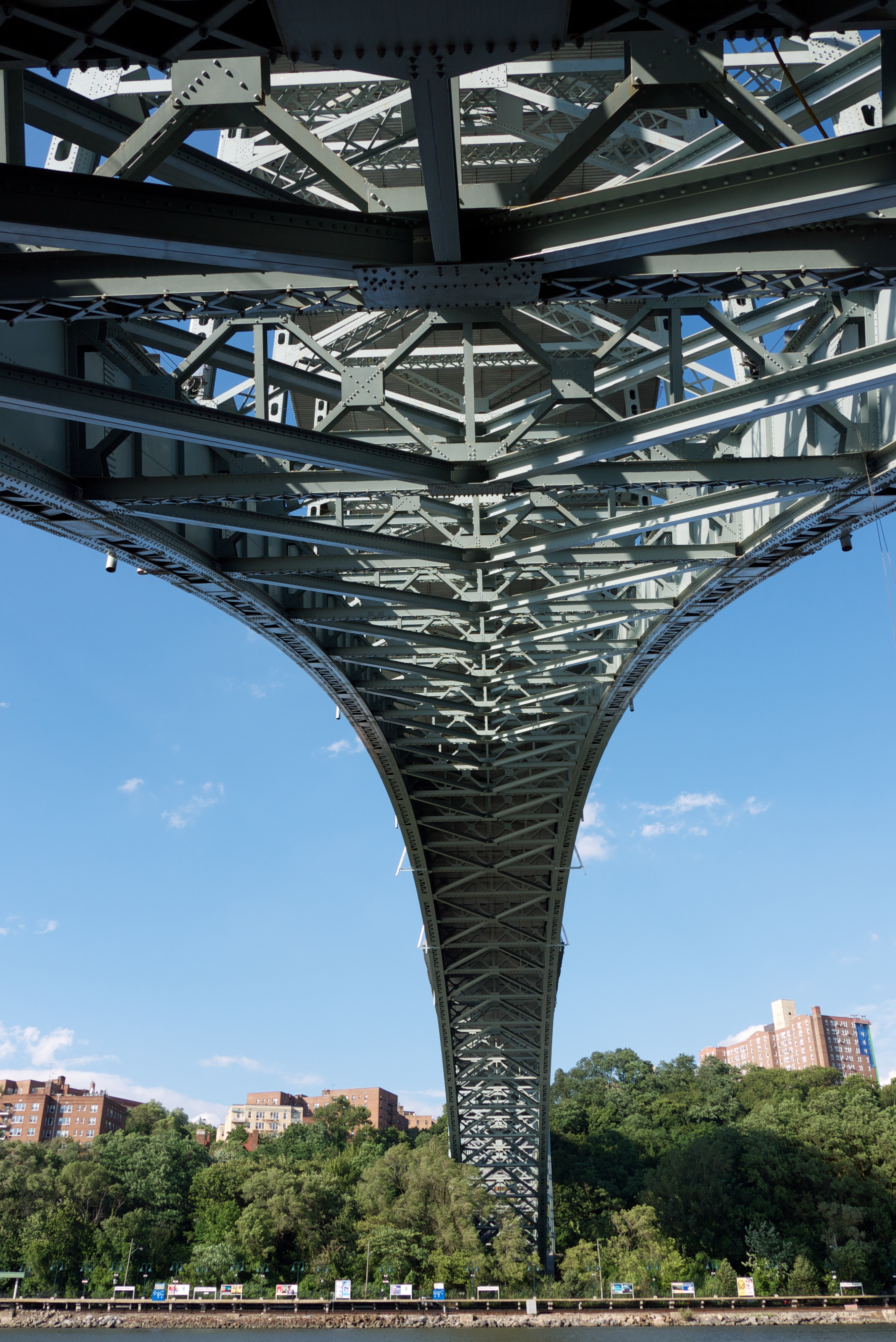 Underside of Henry Hudson Bridge